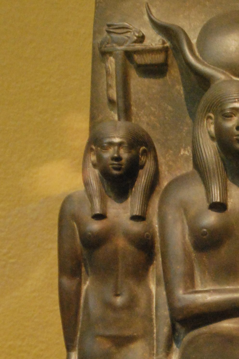 Closeup of the deified Hare nome (the 15th of Upper Egypt) from the triad statue of pharaoh Menkaure, hathor and the Hare nome goddess. Greywache, from Menkaure's Valley Temple at Giza, Reign of Menkaure, 4th Dynasty, Old Kingdom. Now at the Museum of Fine Arts, Boston. Museum Expedition 09.200.